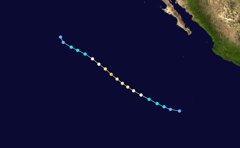 Hurricane Enrique (1997) track. Uses the color scheme from the Saffir-Simpson Hurricane Scale.